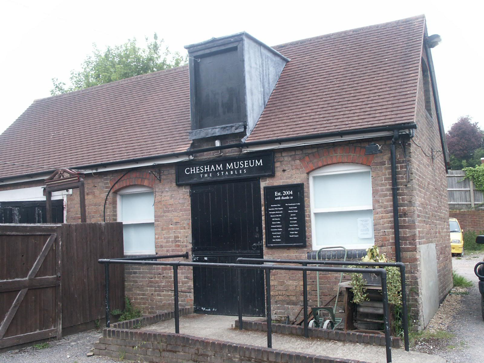 Taken by myself Tmol42